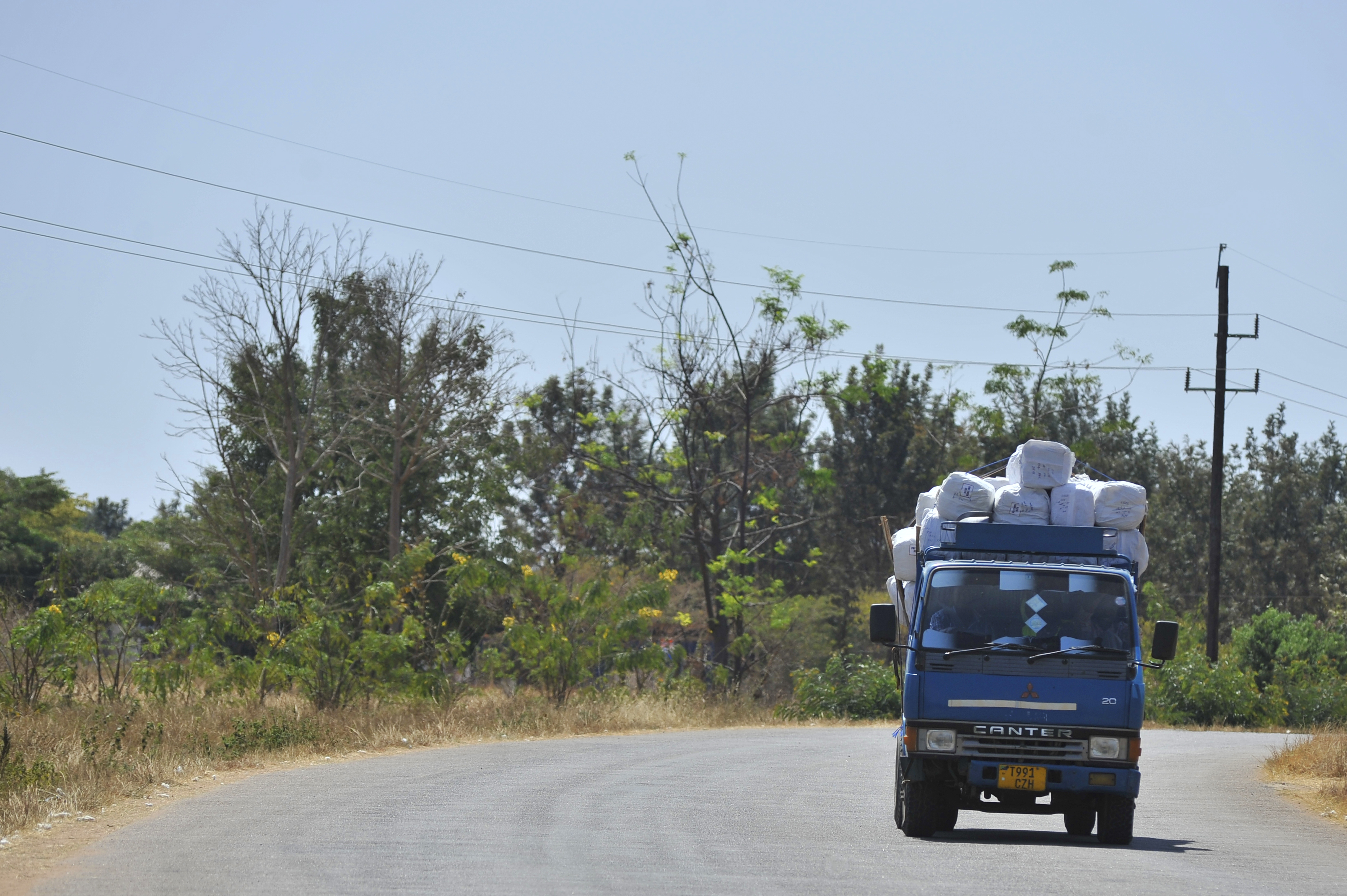 A truck delivers mosquito nets to the schools of Chato district. Credit: Riccardo Gangale/VectorWorks, Courtesy of Photoshare